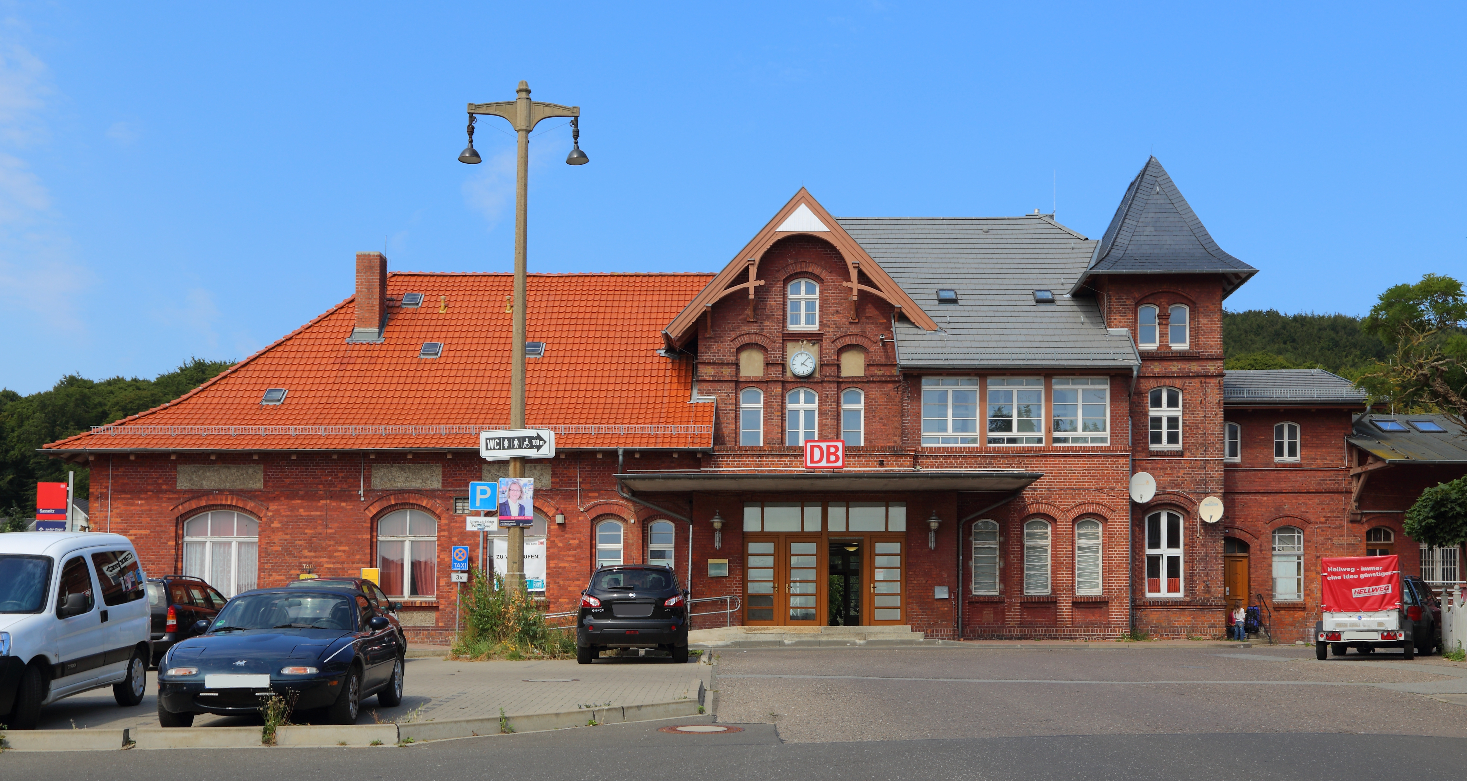 Sassnitz Train Station, 24 Train Station Street (Bahnhofstraße 24) in Sassnitz, Landkreis Vorpommern-Rügen, Mecklenburg-Vorpommern, Germany. This brick building is a listed cultural heritage monument.